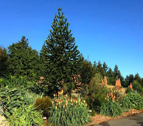 A pathway bordered with dramatic foliage and blooming Kniphofia is punctuated with a monkey puzzle tree (Araucaria araucana) as a bold centerpiece. Photo: Bryon Jones